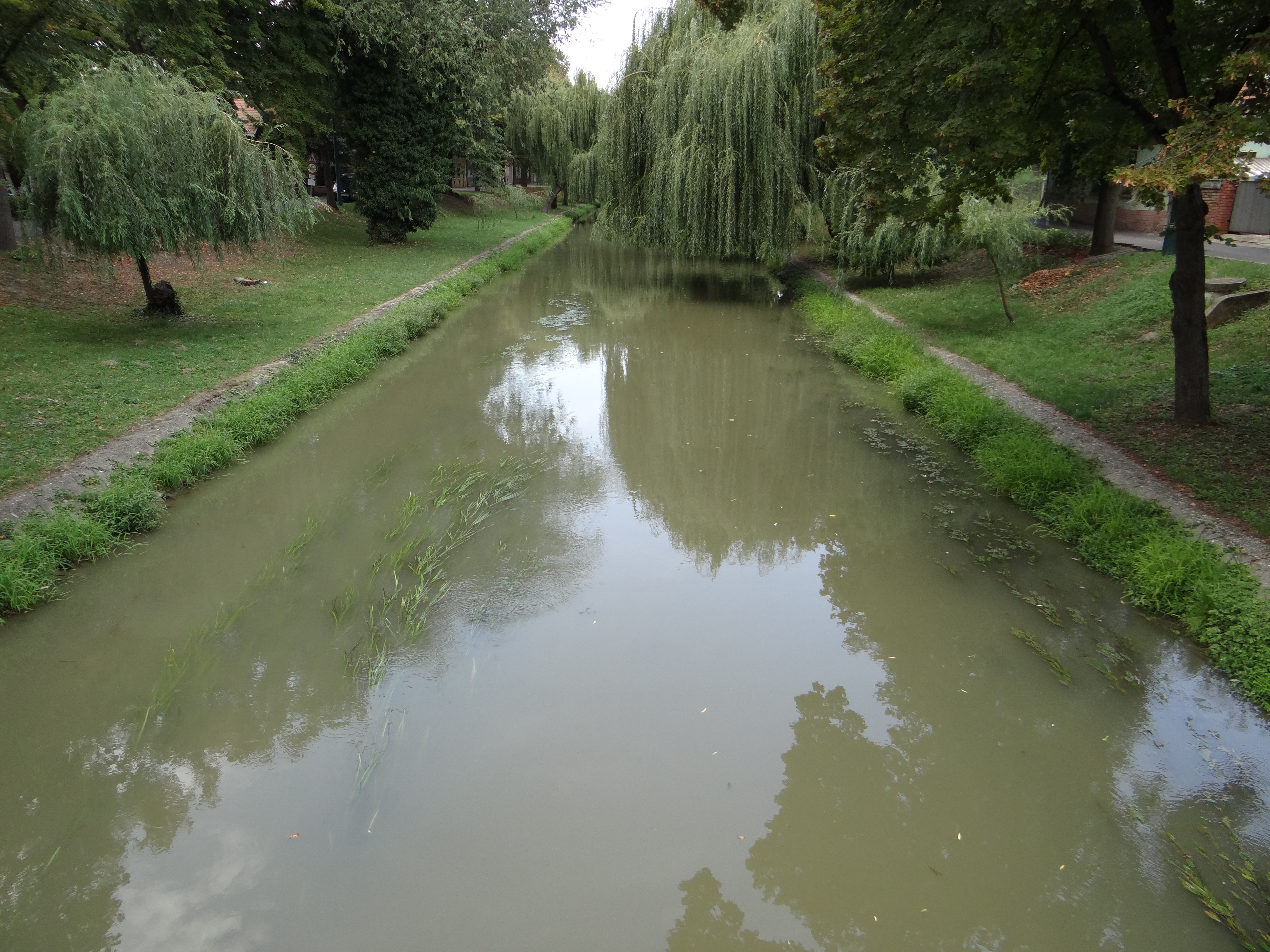 Élővíz channel, Gyula, Hungary